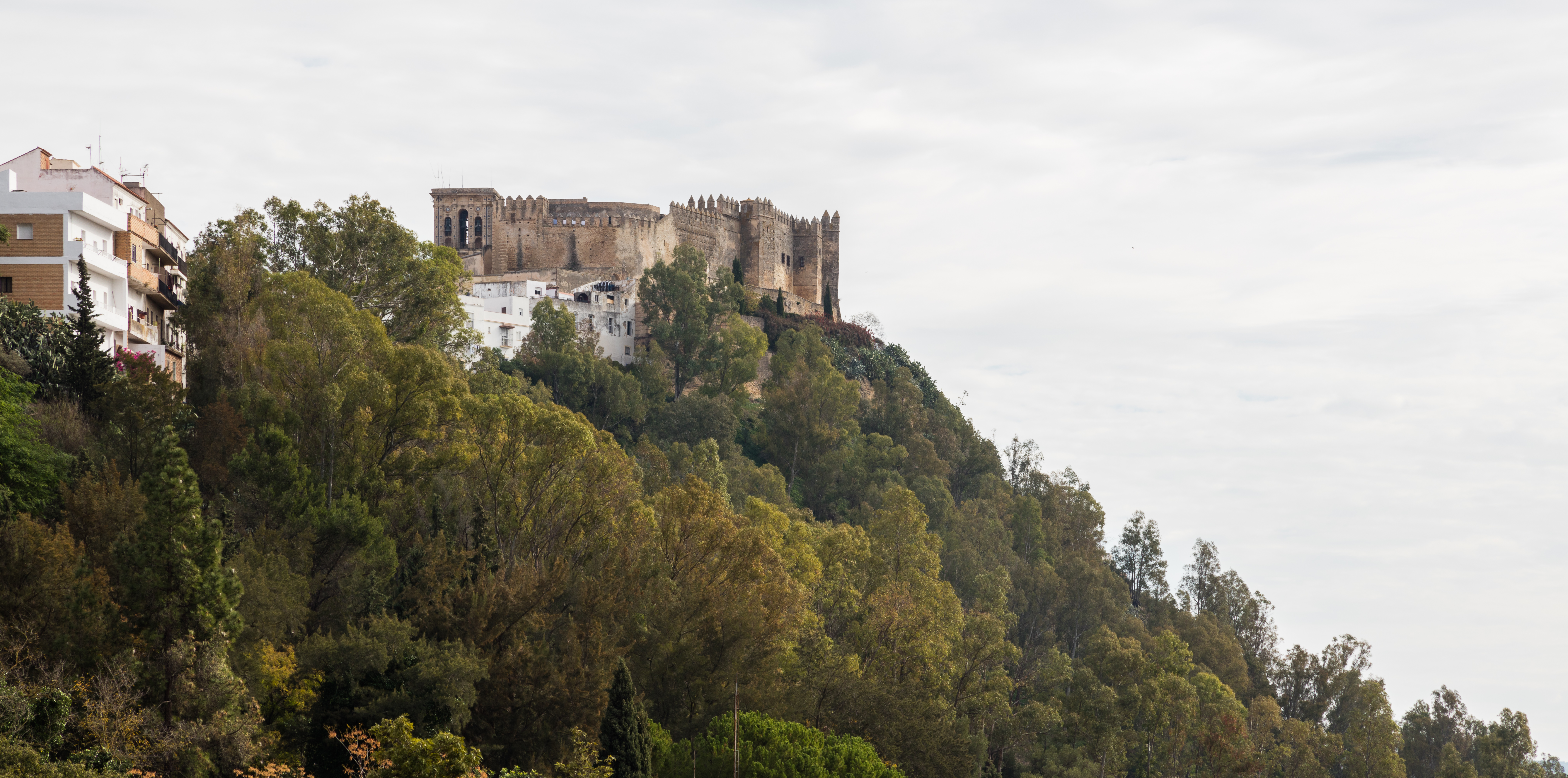 Castle of Arcos de la Frontera, Cádiz, Spain